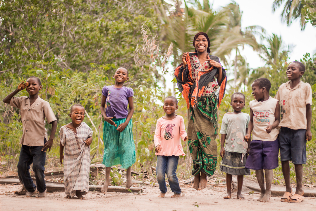 This is an image with the theme "Play" from: Tanzania